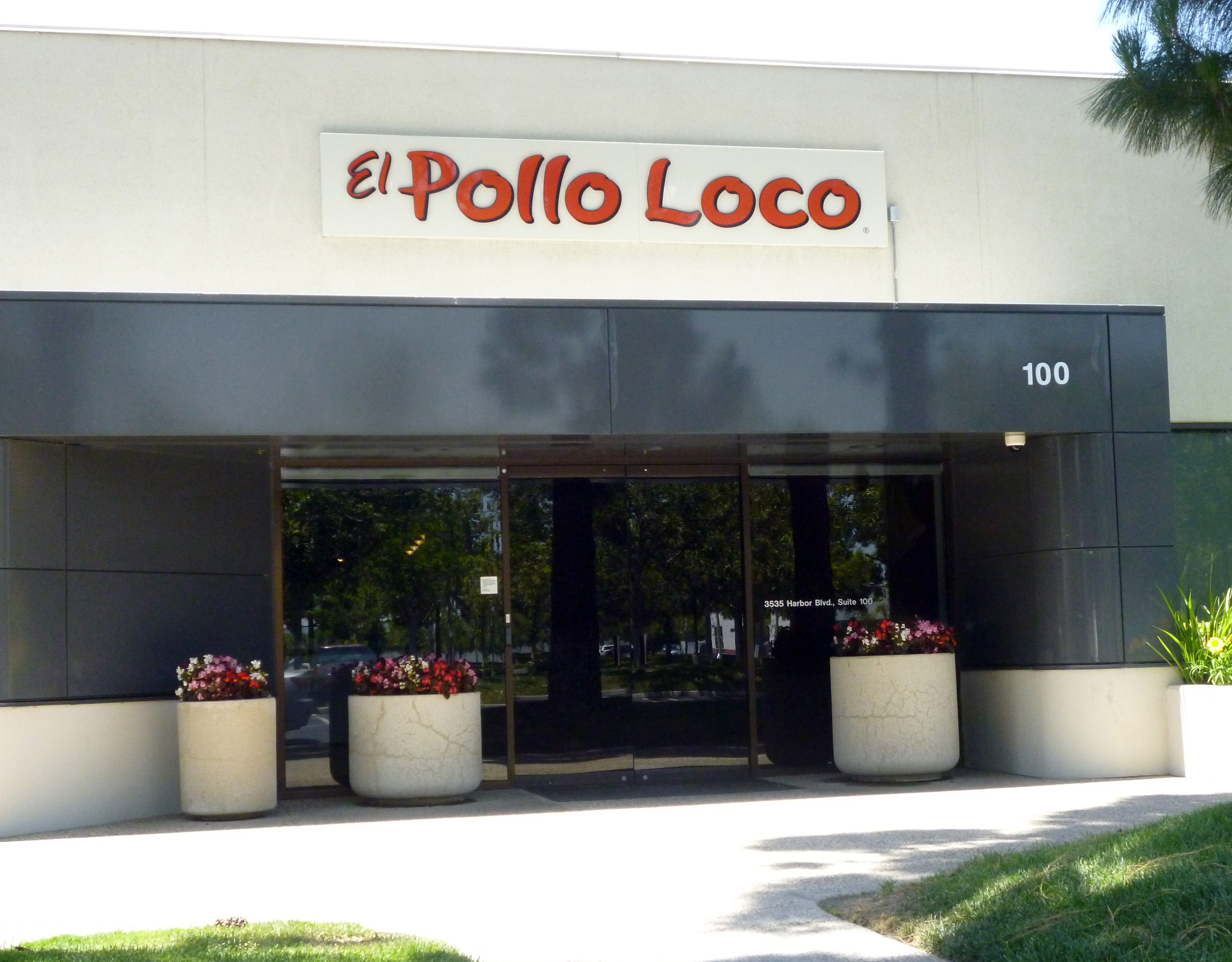 El Pollo Loco headquarters in Costa Mesa, California. Photographed by user Coolcaesar on June 10, 2012.